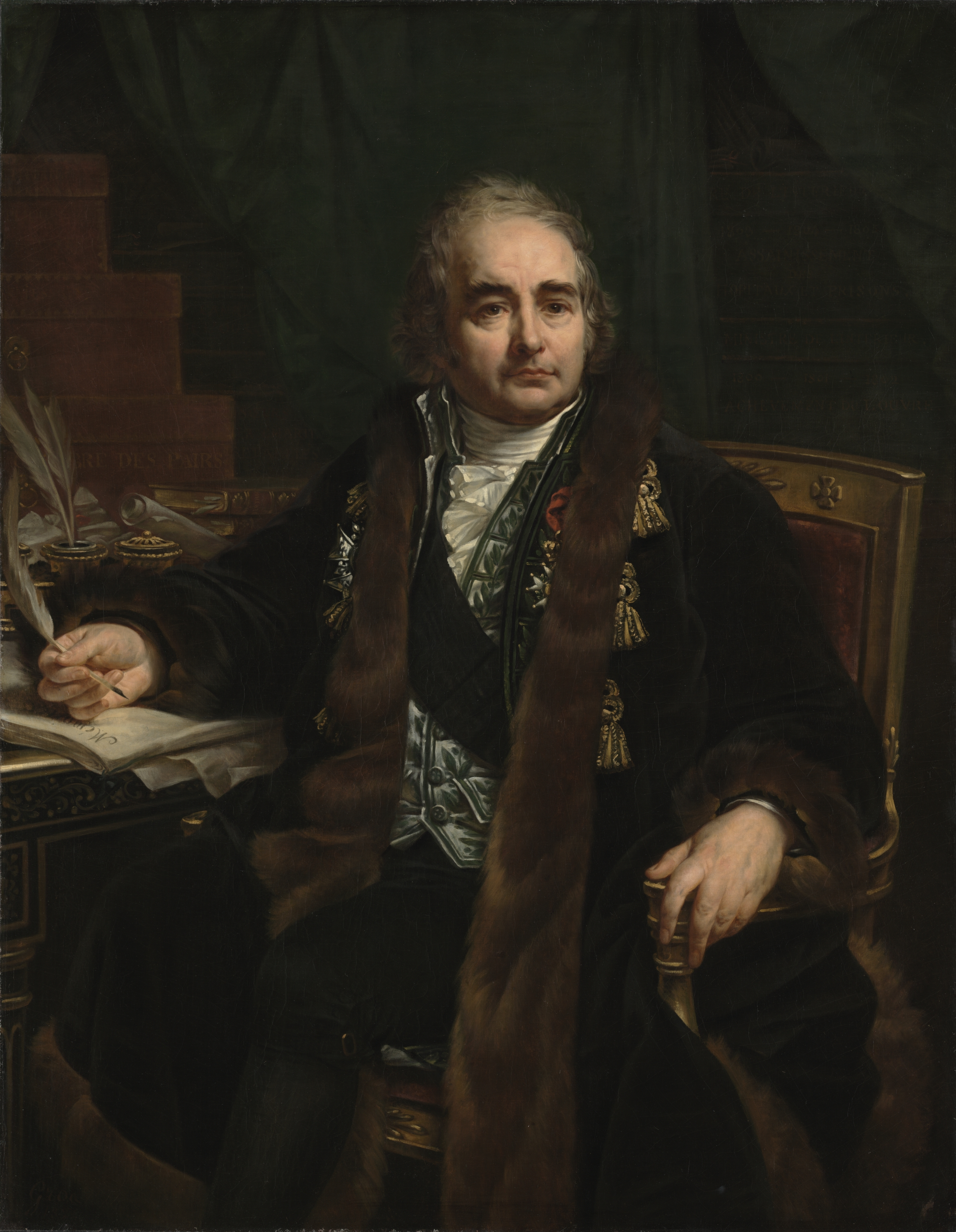 Count Chaptal (1756-1832) played a major role in the development of industry after the French Revolution. He adapted scientific discoveries to public works projects, and as interior minister, he reformed transportation, public health, and vocational training in France. The portrait extols his career, marked by stacked filing boxes in the background, as well as the honors he wears, from the silk sash of the scientific Order of Saint Michel to the Legion of Honor medal pinned over his heart.